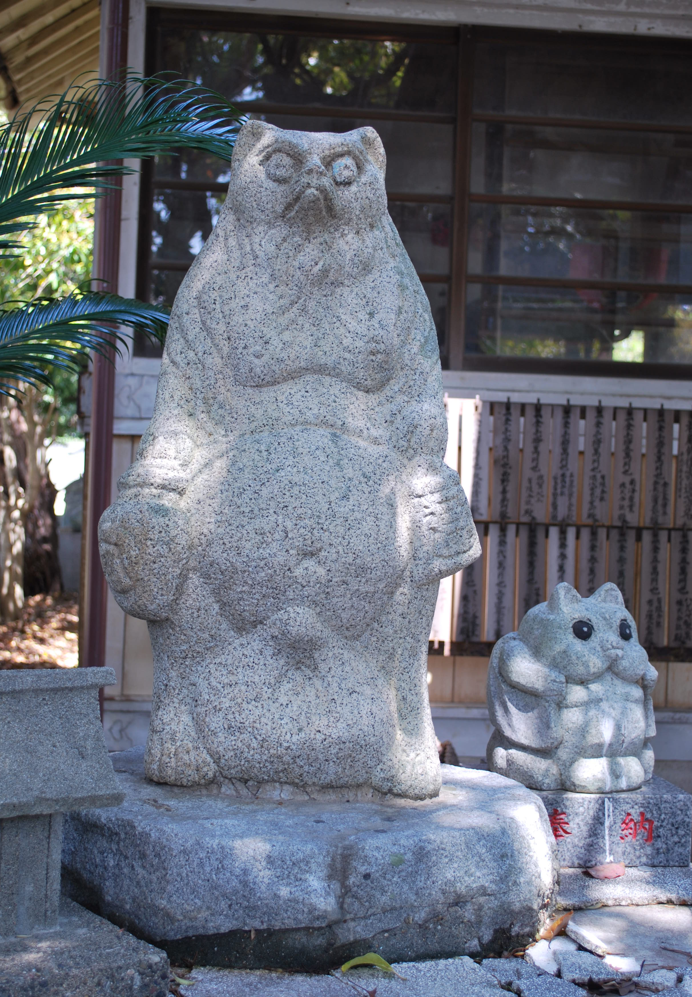 A stone statue of Kinchō, Kinchō-jinja